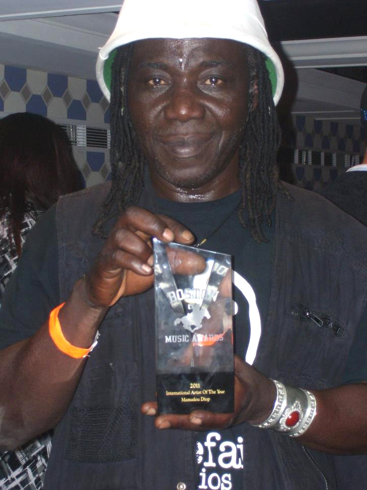 Mamadou Diop with 2011 Boston Music Award trophy